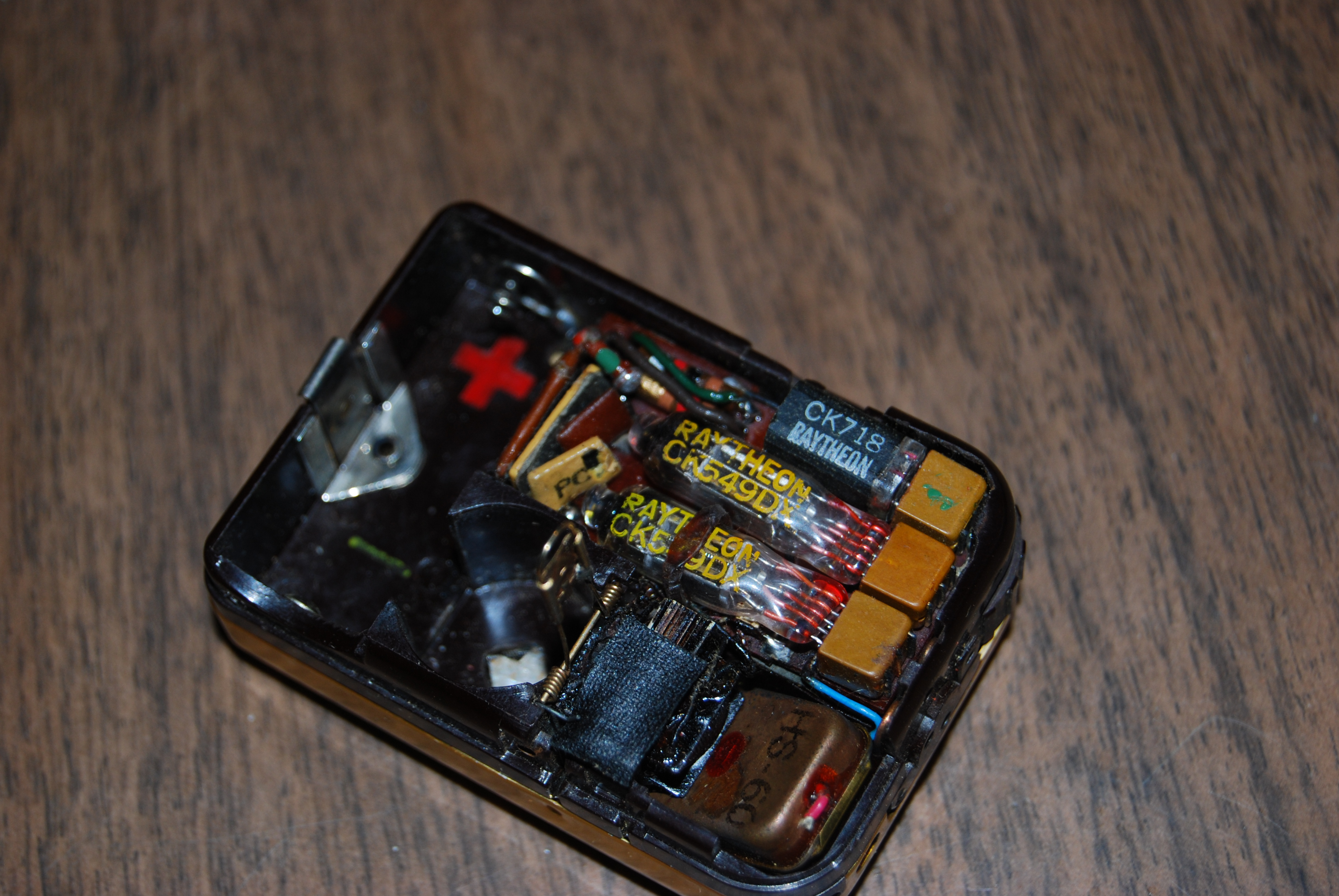 Raytheon was the leading manufacturer of Subminiature Tubes and Transistors for hearing aid applications from the 1940's until the end of the 1950's.